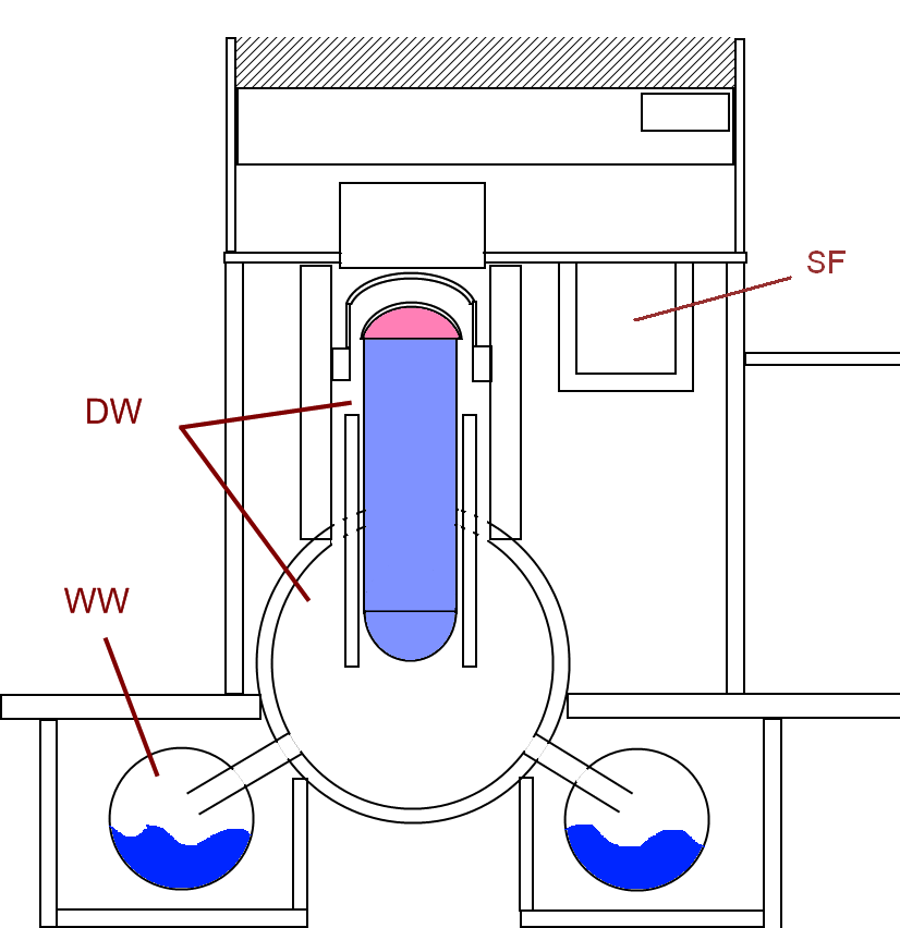 Rough sketch of a typical Boiling water reactor (BWR) Mark I Concrete Containment with Steel Torus, as used in the BWR/1, BWR/2, BWR/3 and some BWR/4 model reactors. DW = Drywell WW = Wetwell SF = Spent fuel pool